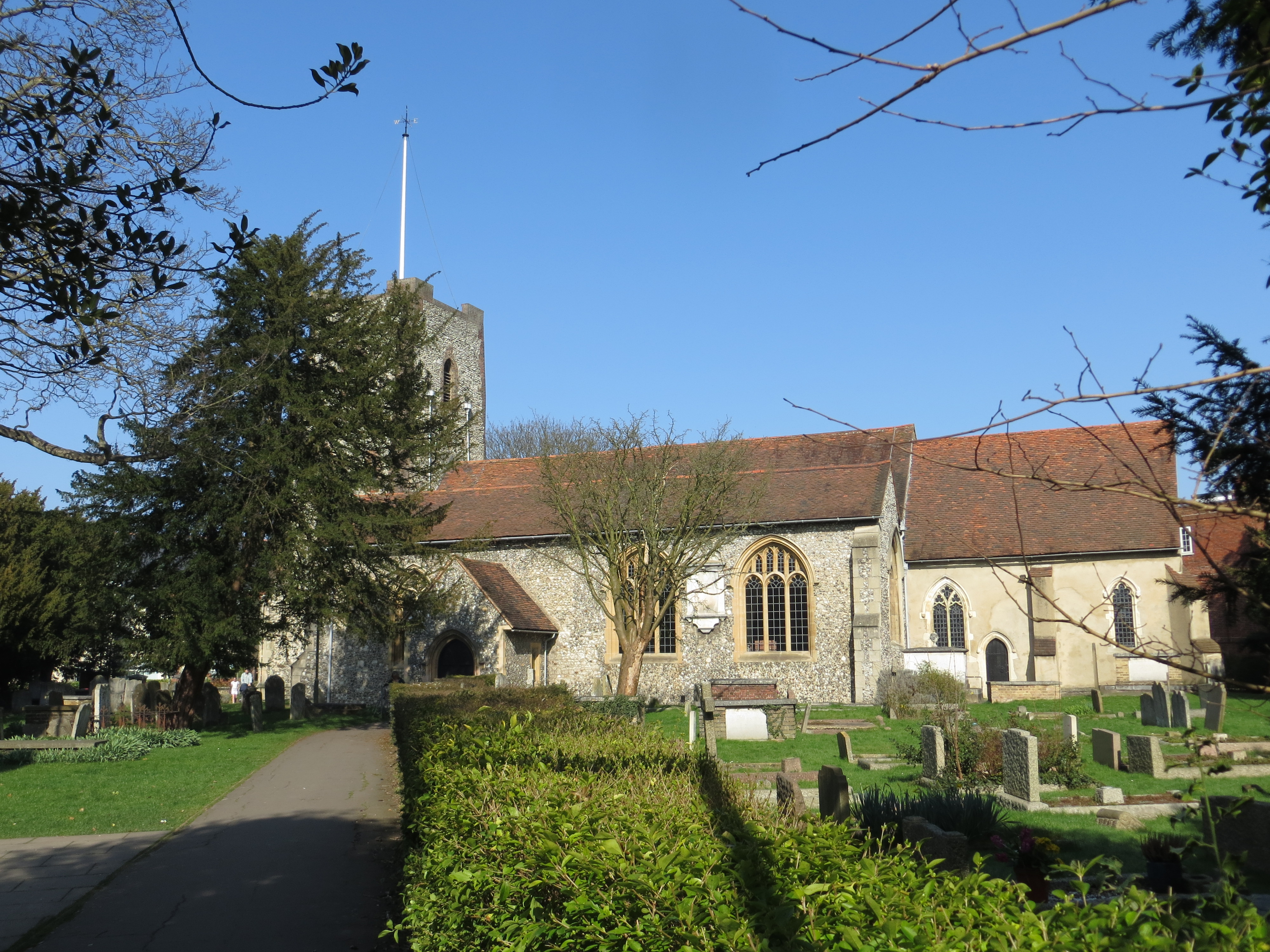 St Mary's parish church, Walton on Thames, Surrey, seen from the south